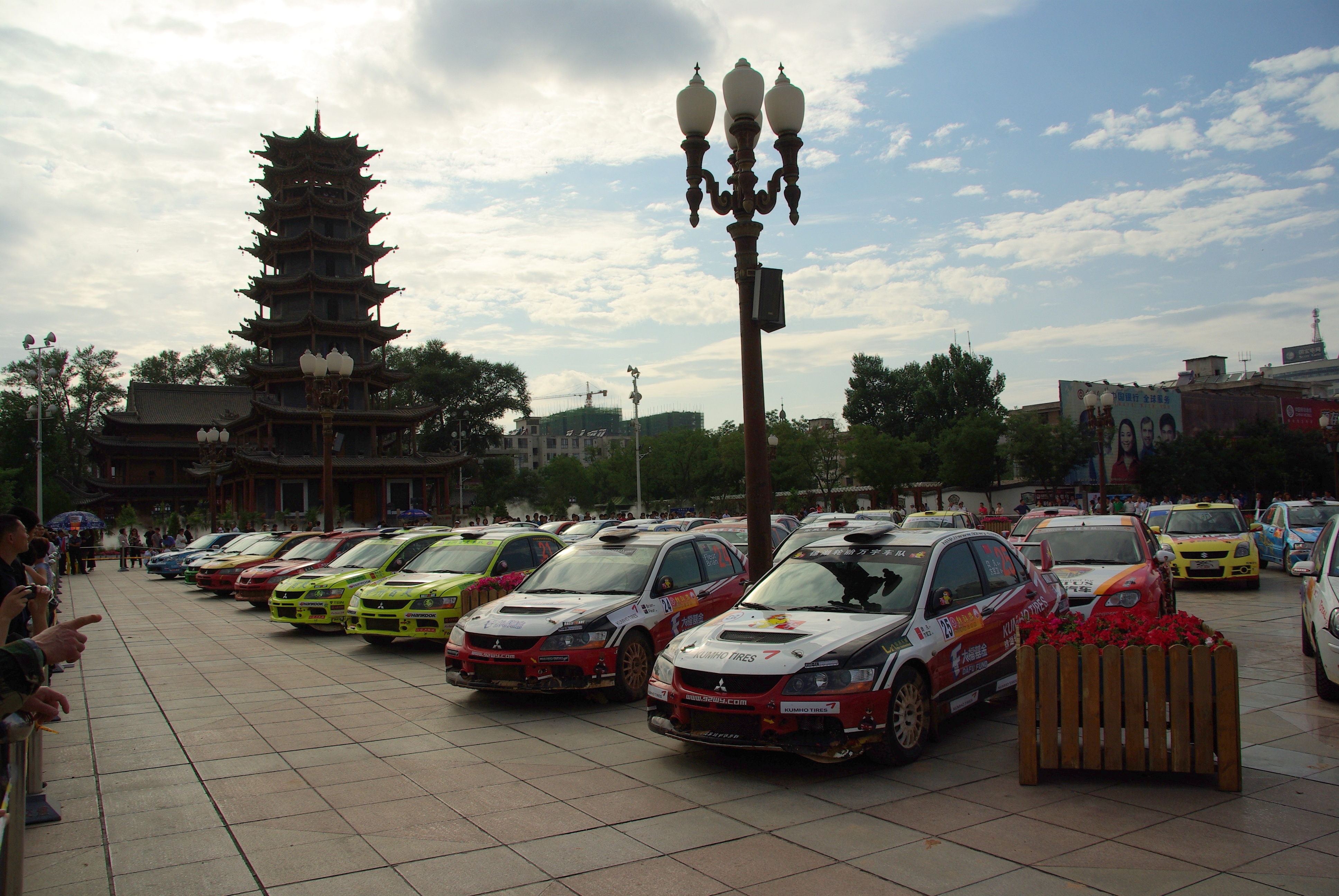 Parce Ferme after the finish of the 2011 Zhangye International Rally in front of the Wooden Pagoda